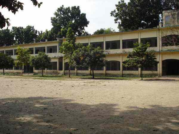 beautiful campus of SGHS